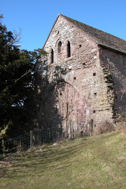 End wall of a barn, Llanthony Priory. The large arch and the smaller arched windows suggests this was originally part of Llanthony Priory.